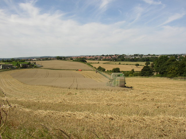 Harvesting off Windy Bank Lane, Hartshead This large field is between Windy Bank Lane and Green Lane. The group of houses on the left is Beggarington.